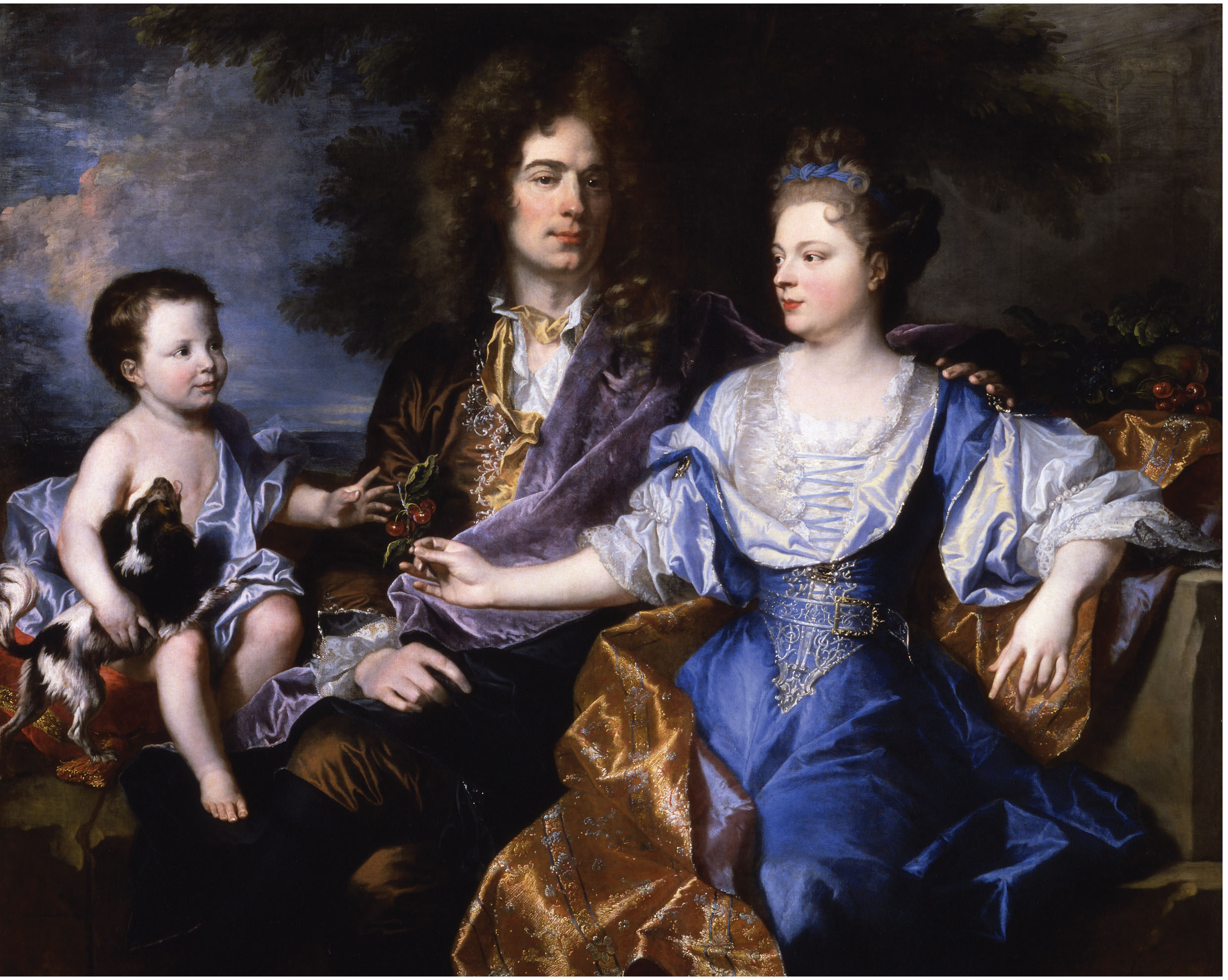 Portrait of Pierre-Frédéric Léonard, King's Printer, accompanied by his wife Marie-Anne des Essarts, and their daughter.